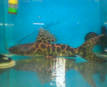 The pimelodid catfish Leiarius longibarbis being sold in a pet shop at the Cartimar Shopping Center in the Philippines. This particular species is rarely seen in the local pet industry. Photograph was taken from the shopping center in Pasay City, Metro Manila.